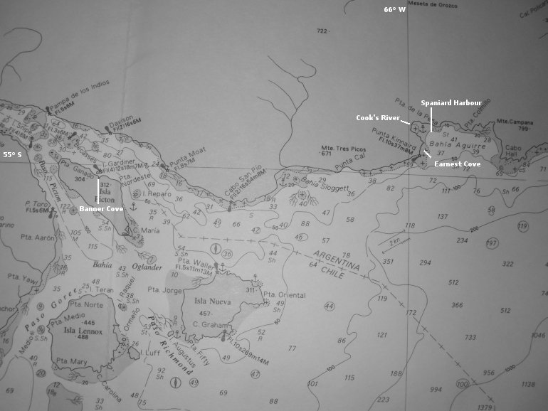 Places of the Allen Gardiner Mission in 1850/1851